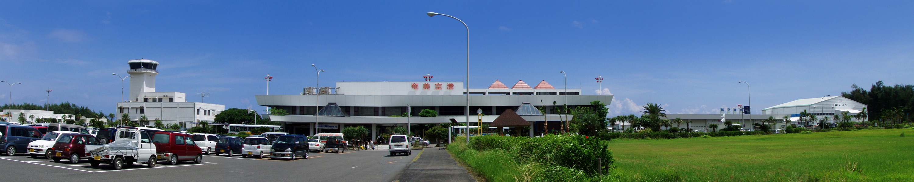 Amami Airport in Wano, Kasari-cho, Amami, Kagoshima Prefecture, Japan. Composite panoramic photo.